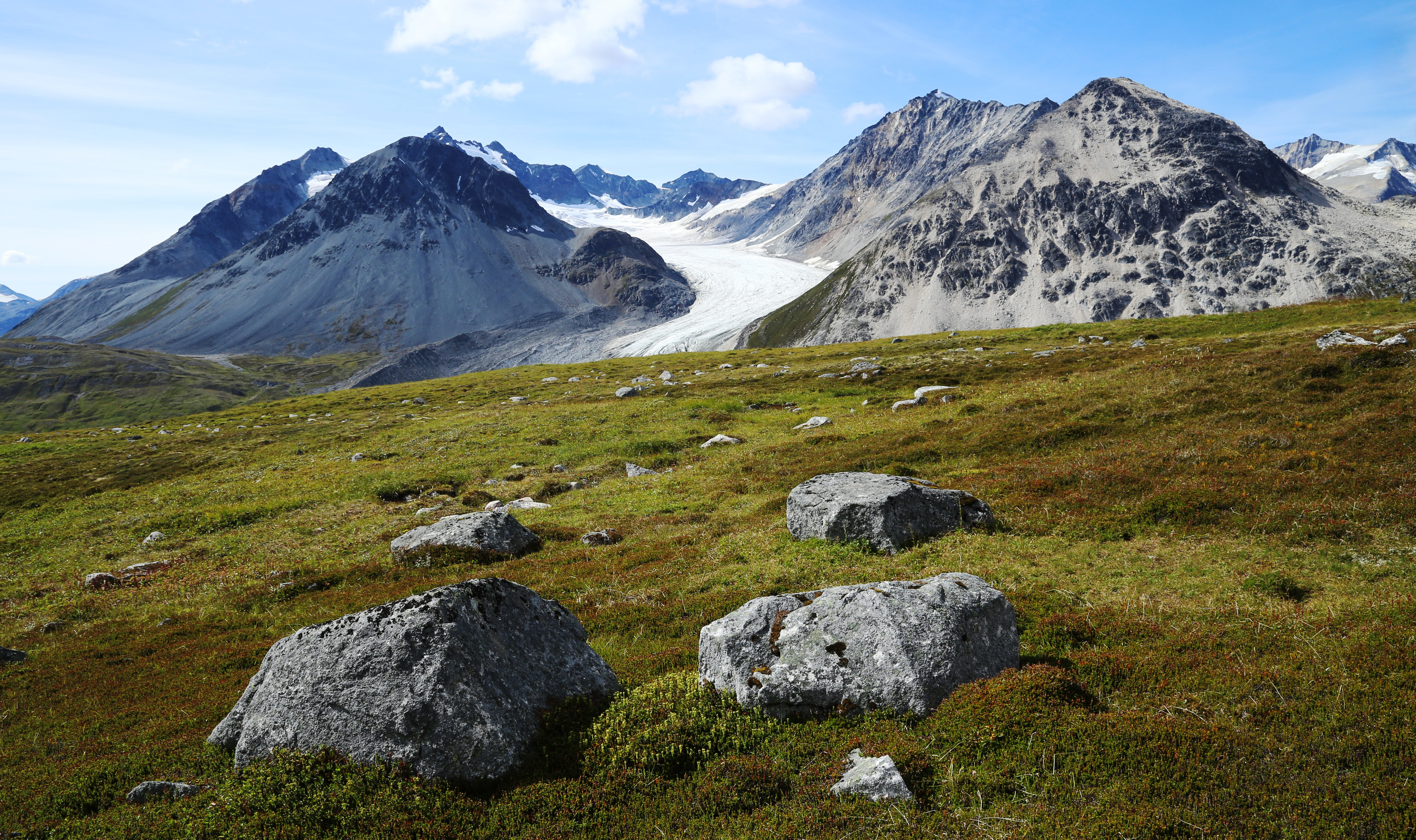 Samuel Glacier and the Samuel mountains, in Tatshenshini-Alsek Provincial Park, British Columbia, Canada. Samuel Peak is behind the side peak on the left. Photo was taken not alongside the trail to the viewpoint, but further than the trail goes.